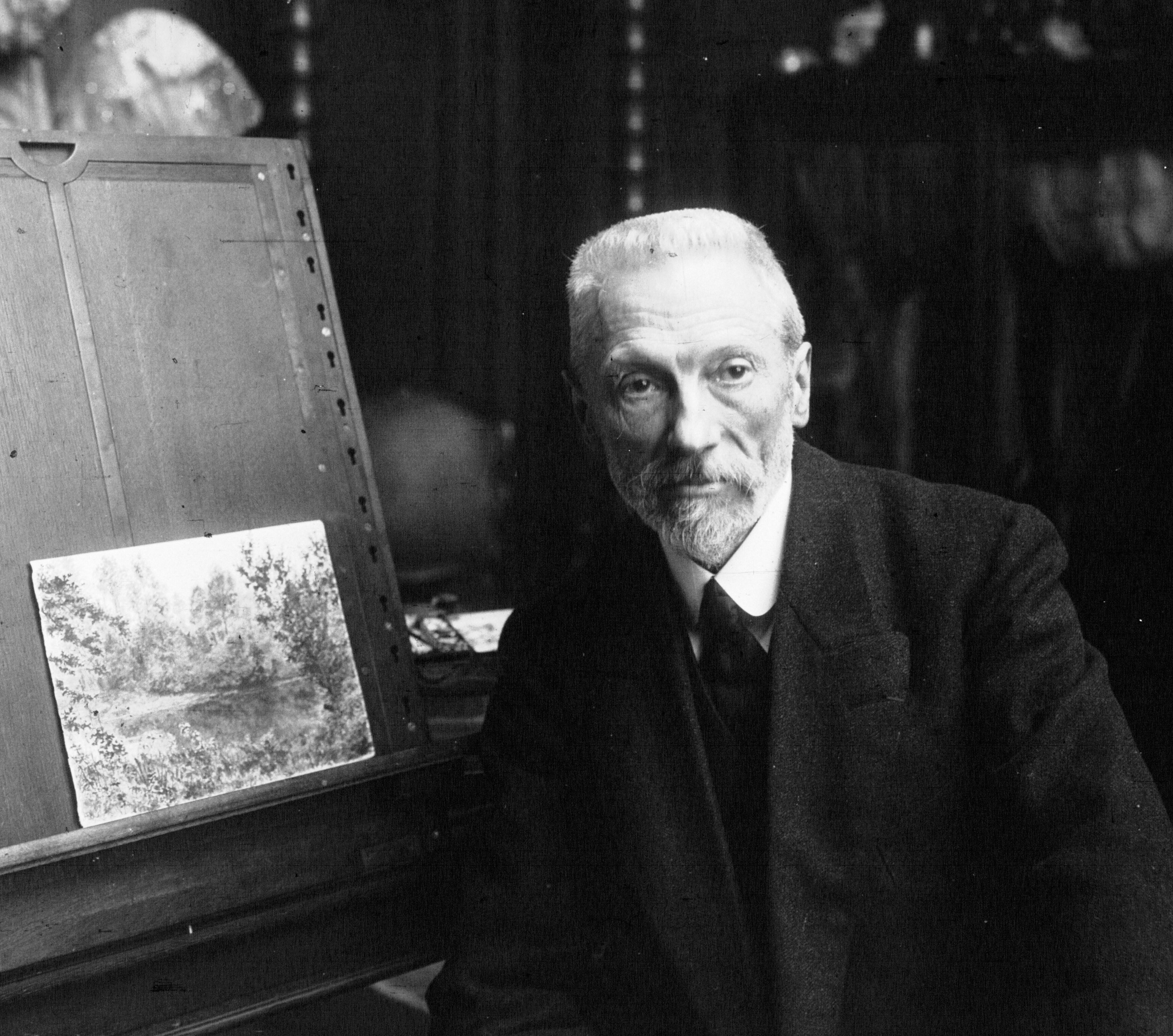 French painter, illustrator, engraver and art collector Maurice Leloir (1853-1940).